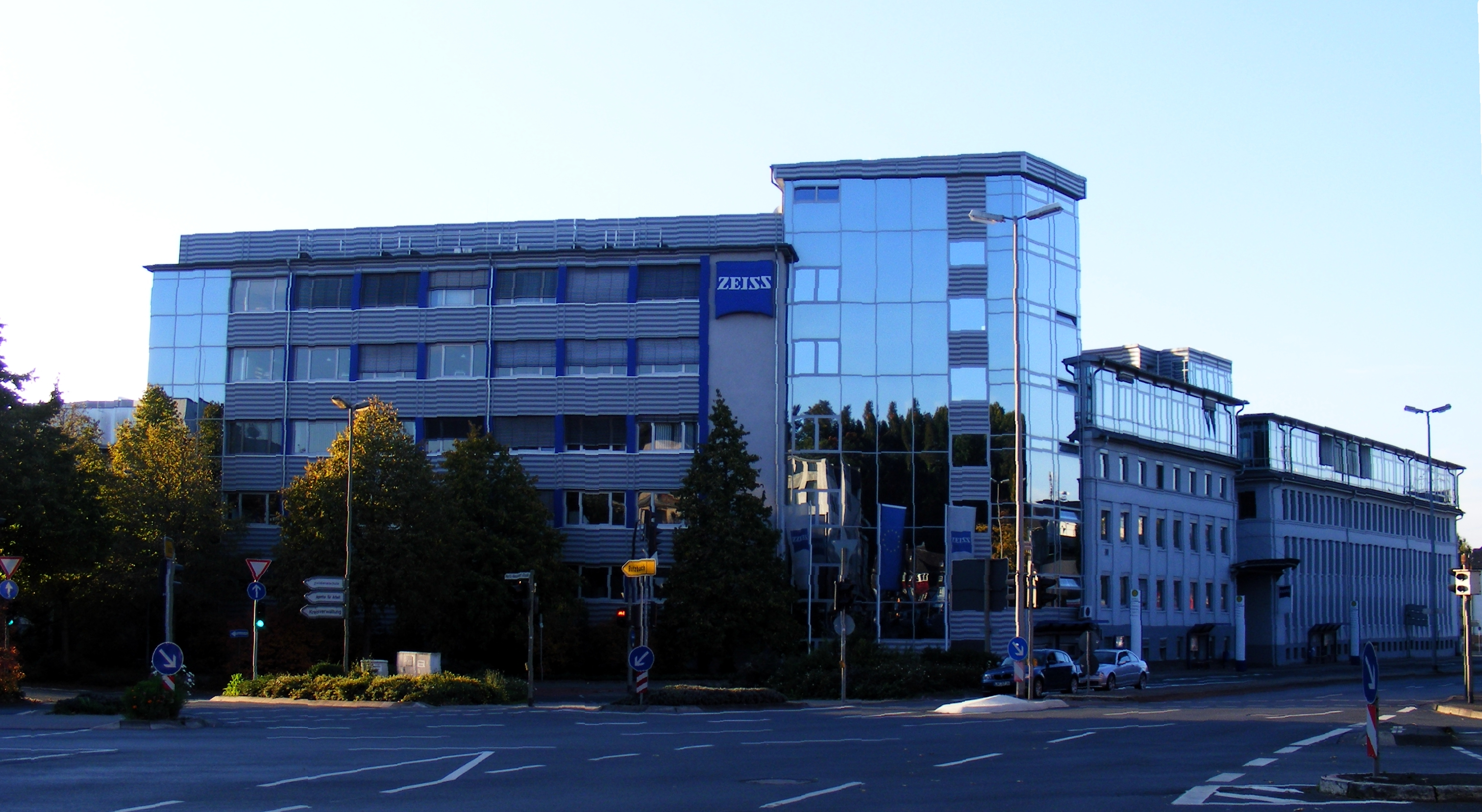 Sports Optics Wetzlar